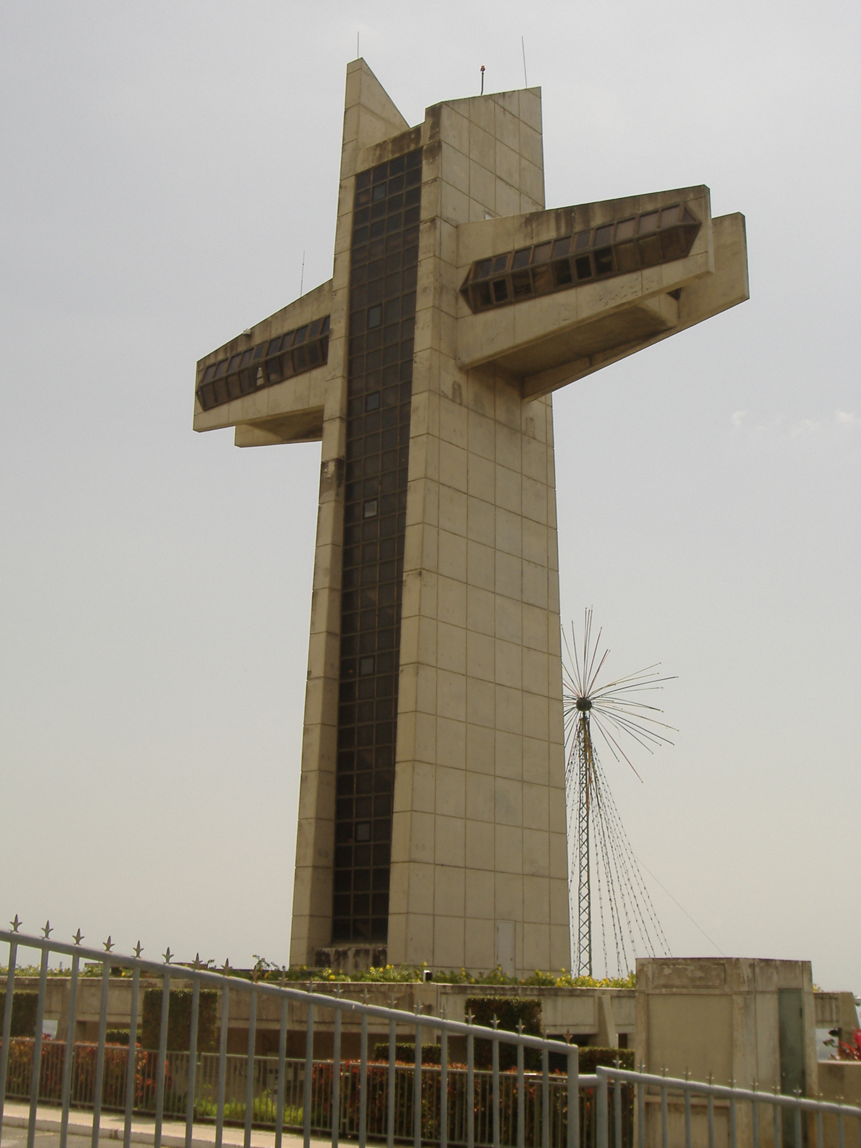 View of the Cruzeta El Vigia in Ponce.